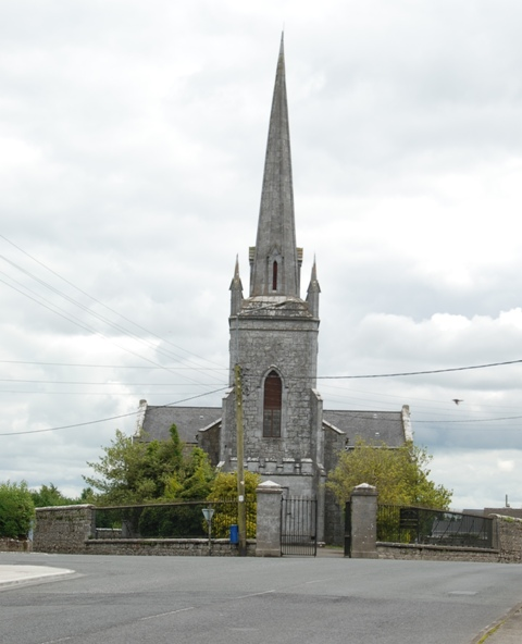 St. Paul's Church, Banagher, Co. Offaly. Ireland.